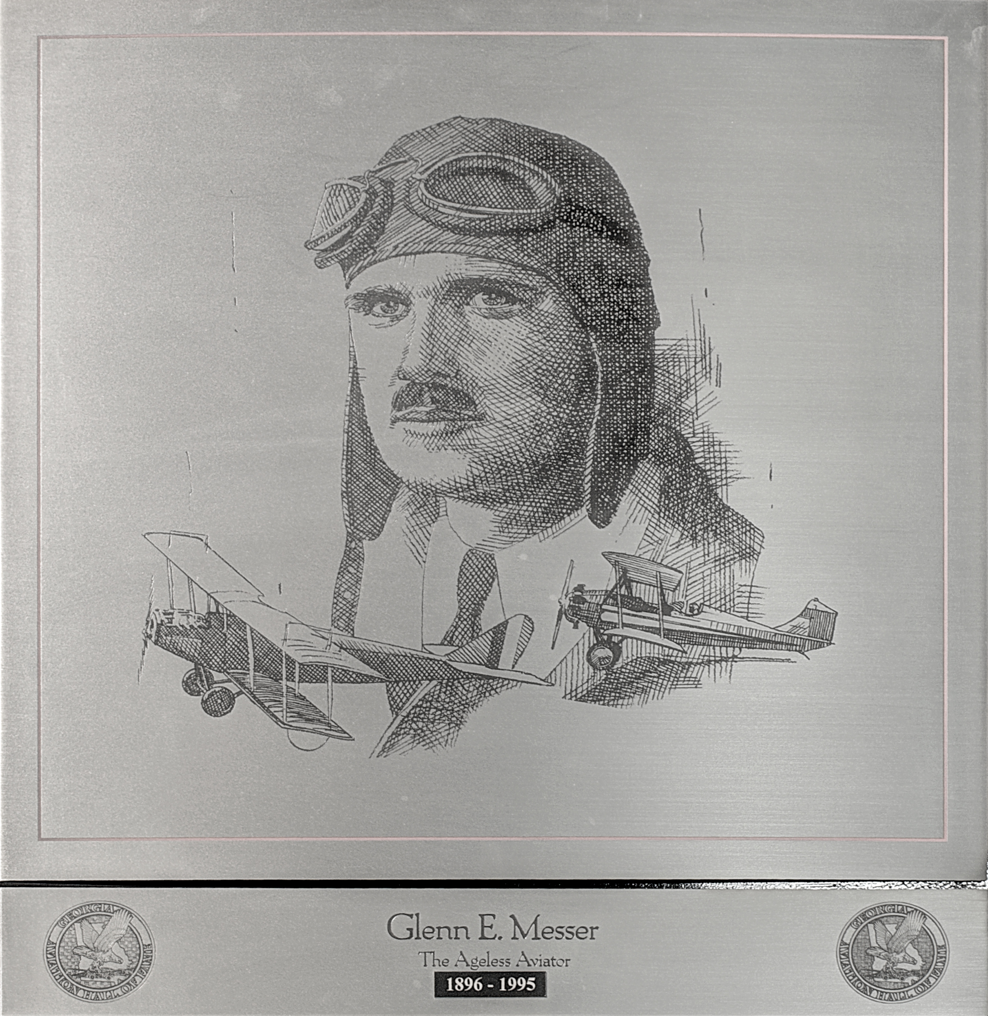 Glenn E. Messer (1896 - 1995)